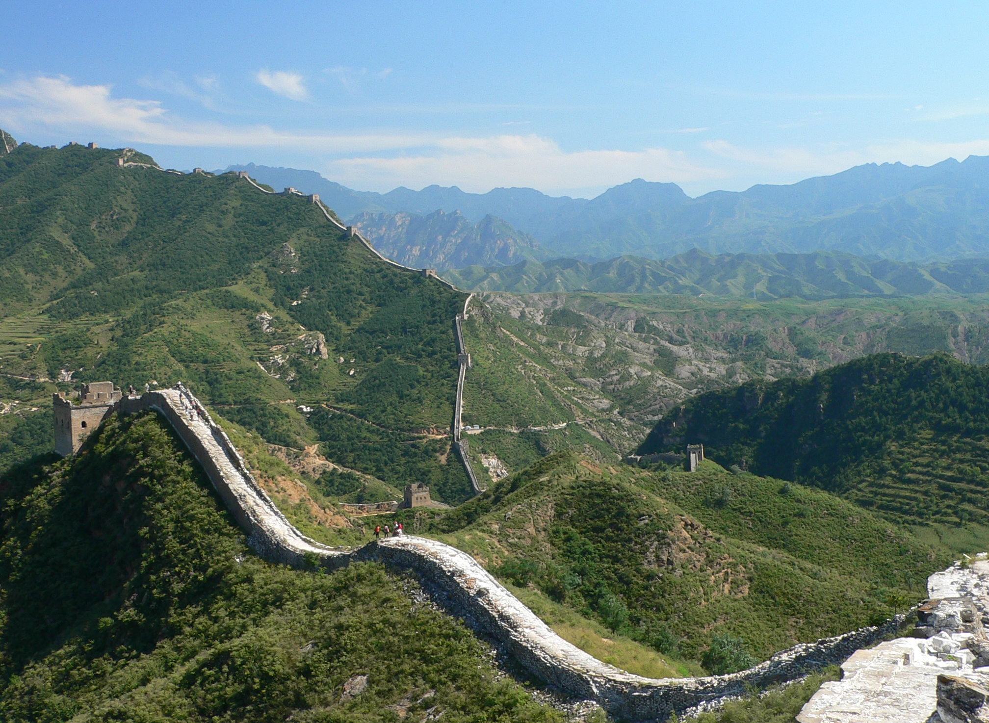 Great Wall, China